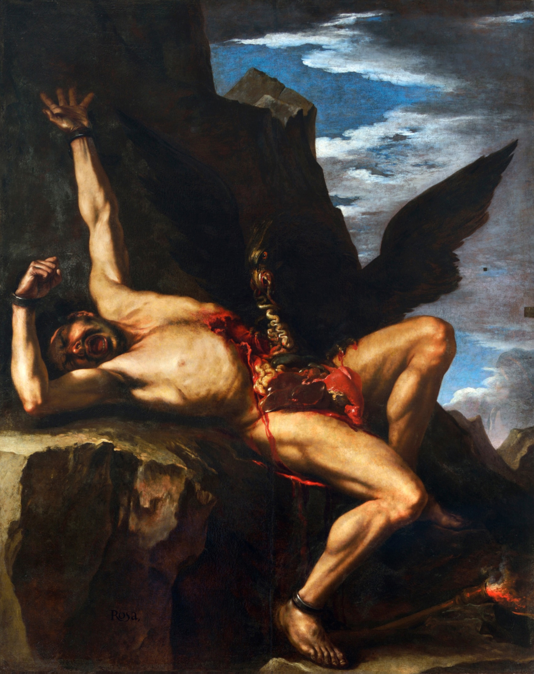 Prometheus, a figure from classical mythology, lies supine, chained to a rock in the Caucasus. The brutality of the torture appears in his straining limbs and contorted features. One of his hands is clenched, the other opened wide, and his tendons are almost bursting from his wrist: his outspread legs are both tensed. His belly has been ripped open, revealing a fragment of human anatomy. Here the eagle is shown devouring his intestine, though the myth actually speaks of his liver, which grew again every day, so becoming a daily meal and endless torture. The figure is identified as Prometheus by the torch burning in the bottom right-hand corner, by which the Titan had bestowed the gift of fire on humanity. The eagle, attributed to Zeus, becomes the instrument of the vengeance of the father of the gods. The torment of Prometheus is a theme in which figurative issues, bound up with the correct representation of the passions (such as pain, wonder, death and madness) are entwined with philosophical and literary motifs that were congenial to Salvator Rosa’s many-sided spirit.